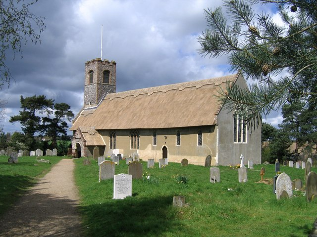 Church to Saint Ethelbert in Thurton. Newly Thatched and looking immaculate, St Ethelbert stands on a hill south of the village